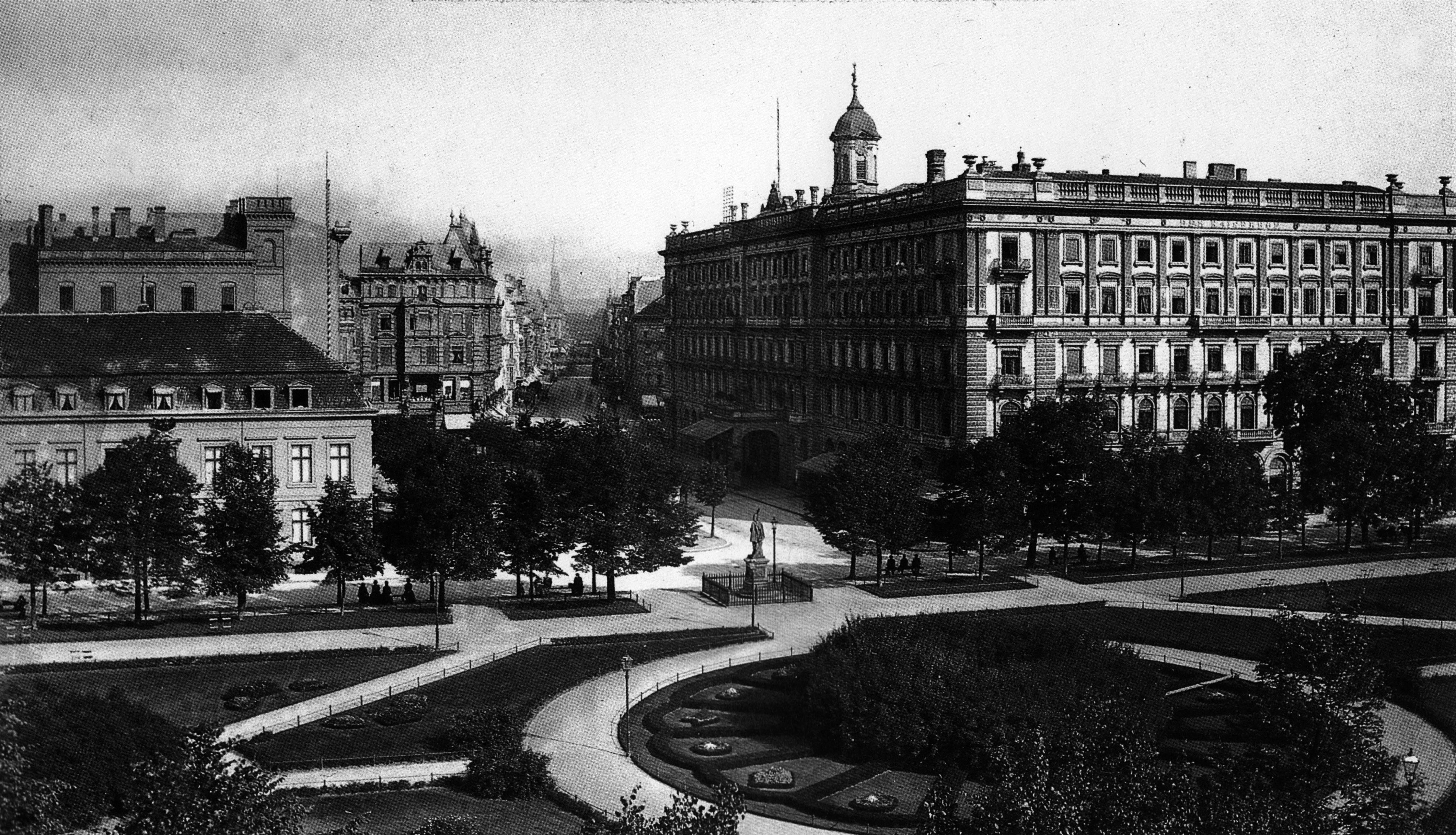 The former Wilhelmplatz (later Thälmannplatz), now the crossing of Wilhelmstraße and Mohrenstraße. On the other side of the square is the hotel Kaiserhof, which was destroyed in 1943.